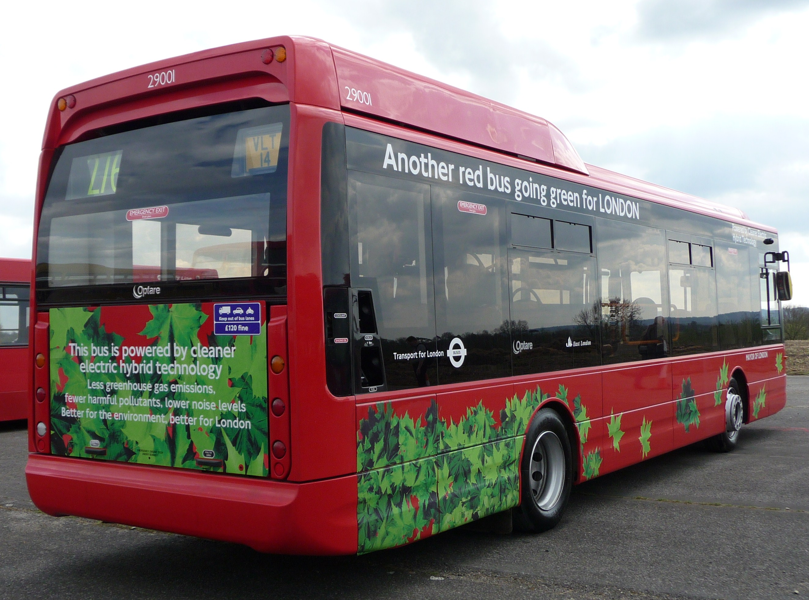 The rear of East London's 29001 (VLT 14), a hybrid Optare Tempo, at the 2009 Cobham bus rally at Wisley Airfield. It carries ex-Routemaster registration VLT 14; its original registration is YJ08 PGO.